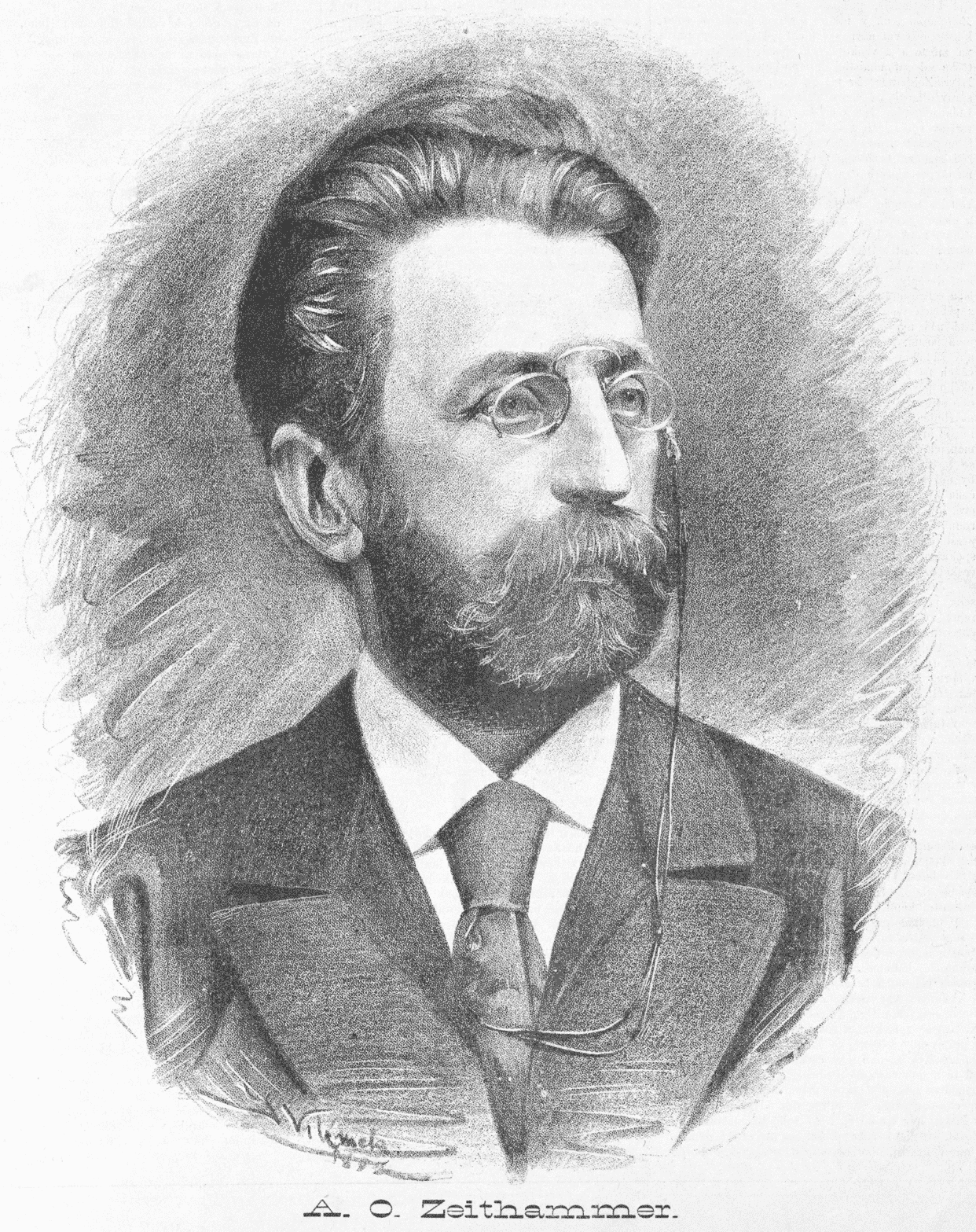 Portrait of Antonín Otakar Zeithammer (1832-1919), Czech politician and journalist